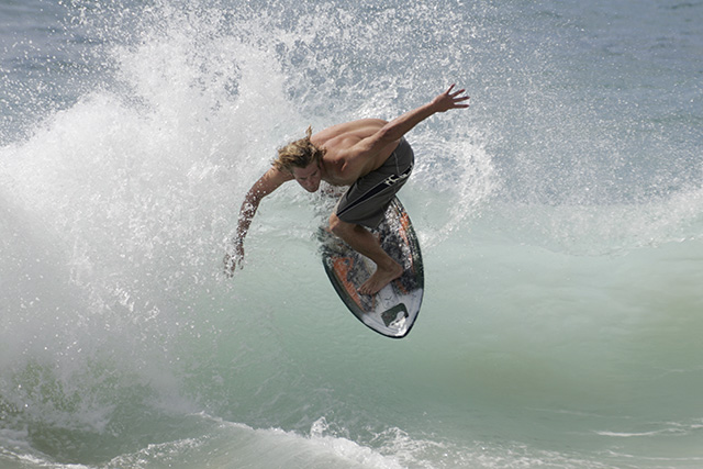 picture of a person skimmboarding.